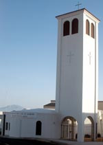 Gibraltar's national shrine at Europa Point (sitting on its left wall)